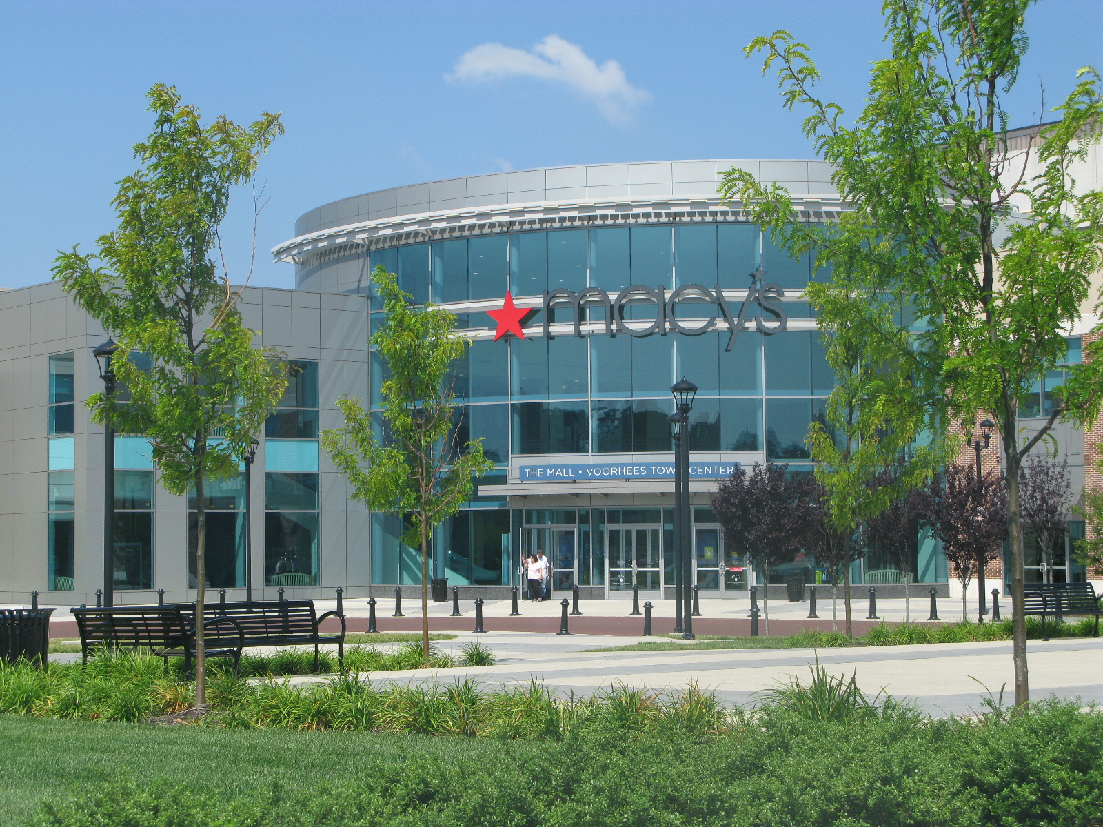 Voorhees Town Center Macy's Entrance